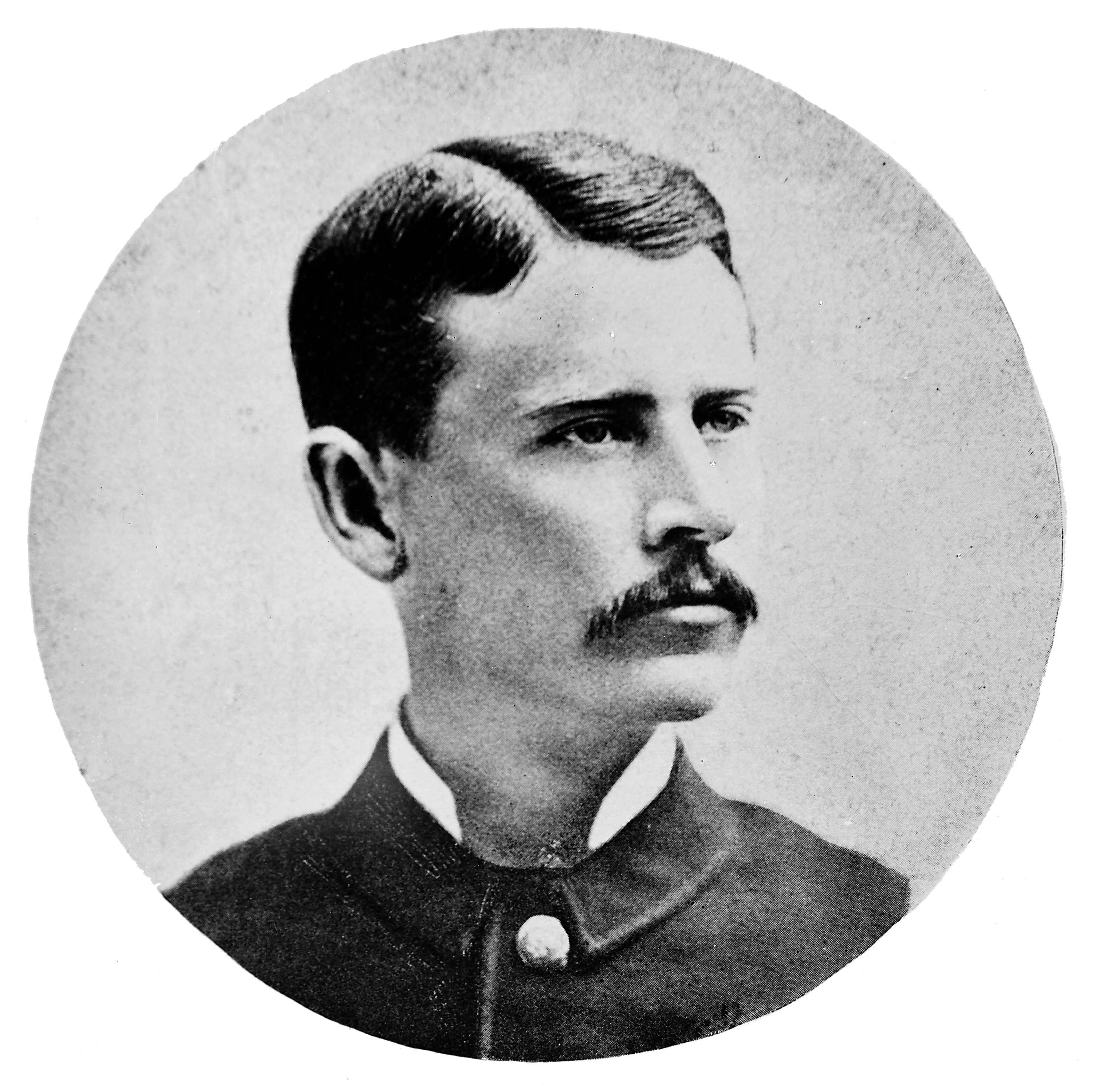 Portrait of Walter Reed, taken in Washington D.C. at the age of 31. Wellcome Images Keywords: Walter Reed